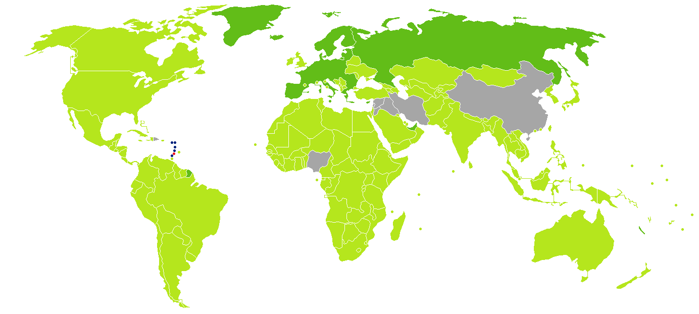 Visa policy of Saint Vincent and the Grenadines Saint Vincent and the Grenadines Freedom of movement Visa-free entry for 90 days Visa-free entry for 30 days Visa required